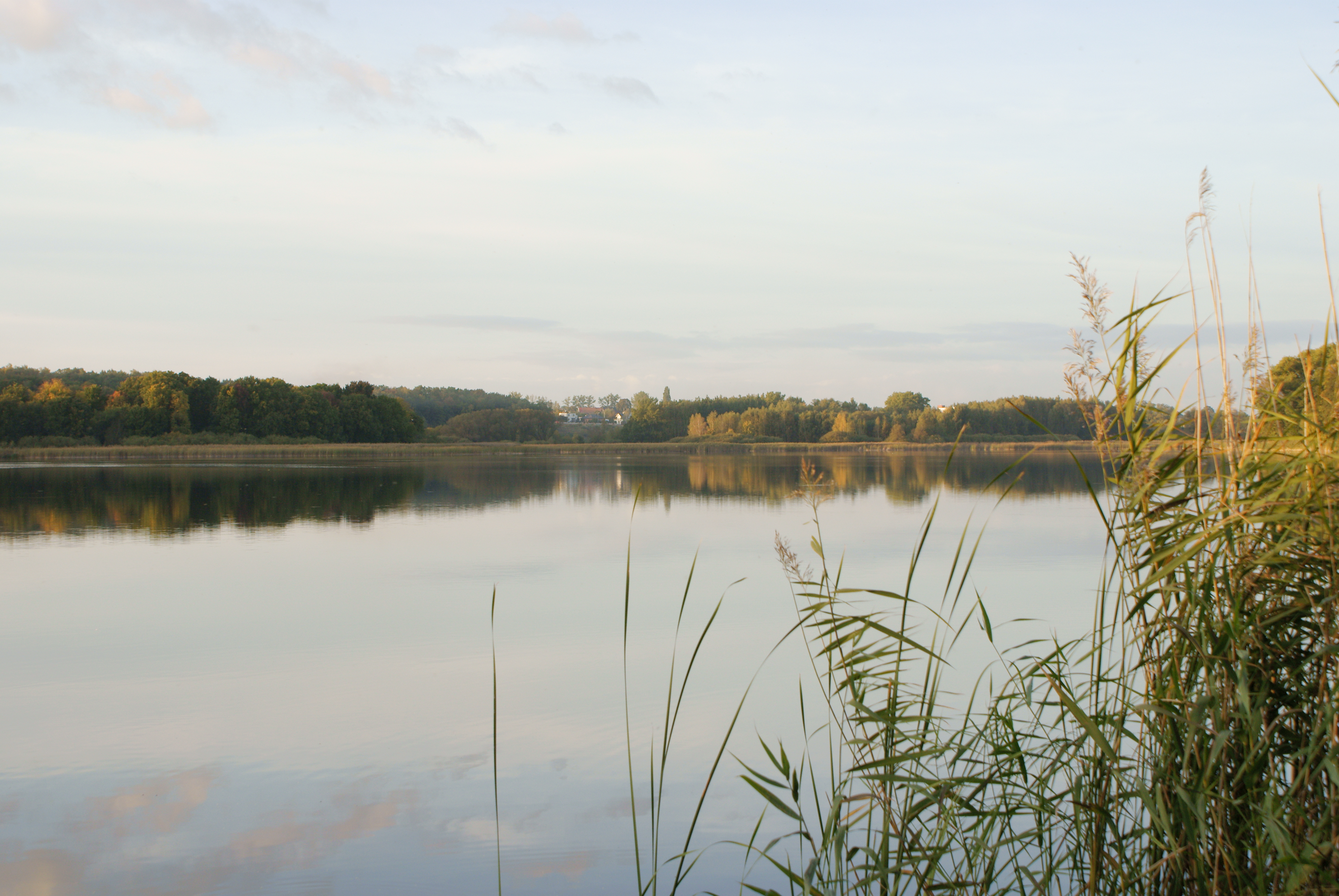 Swarzędzkie Lake